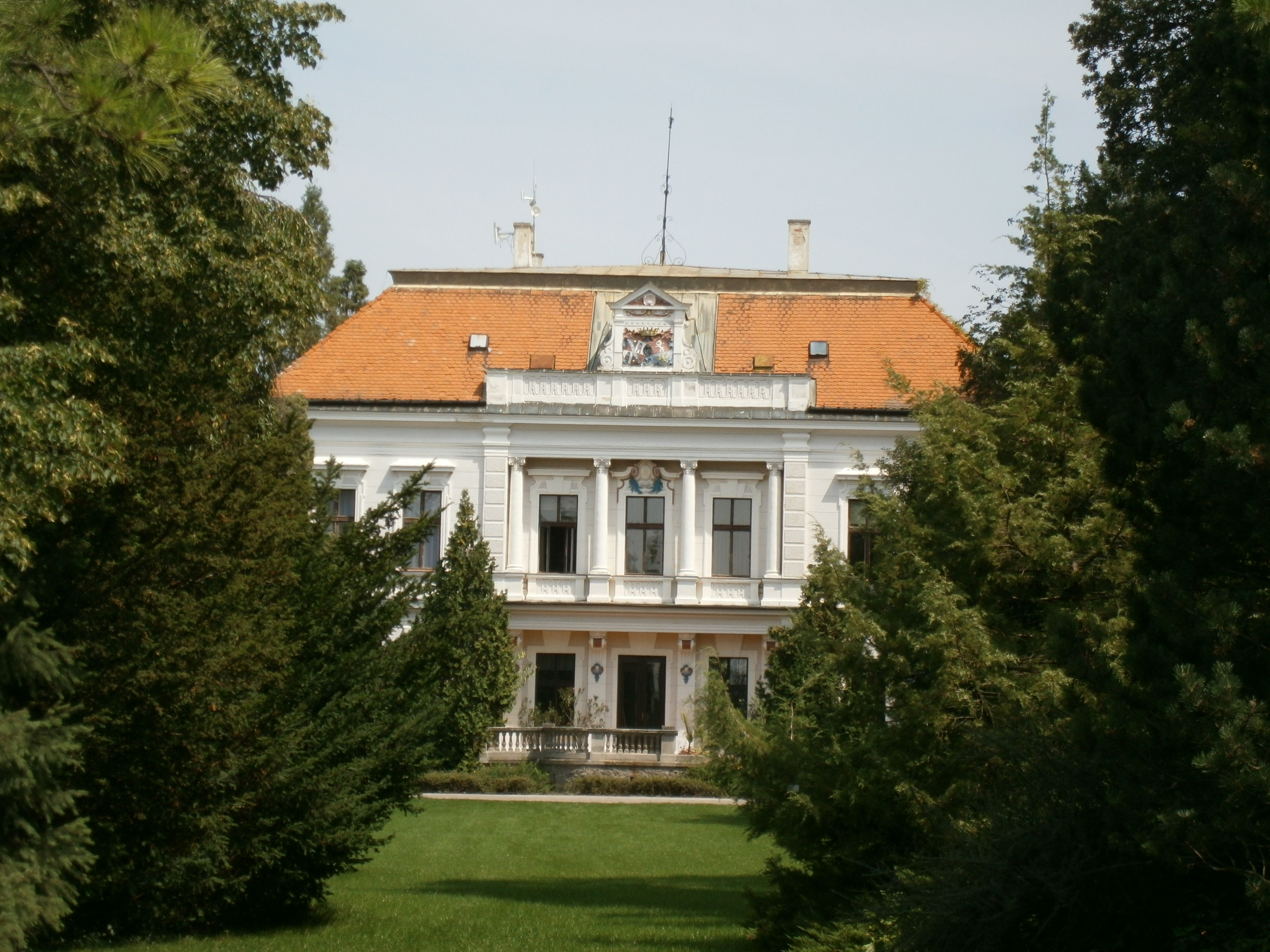 Manor-house